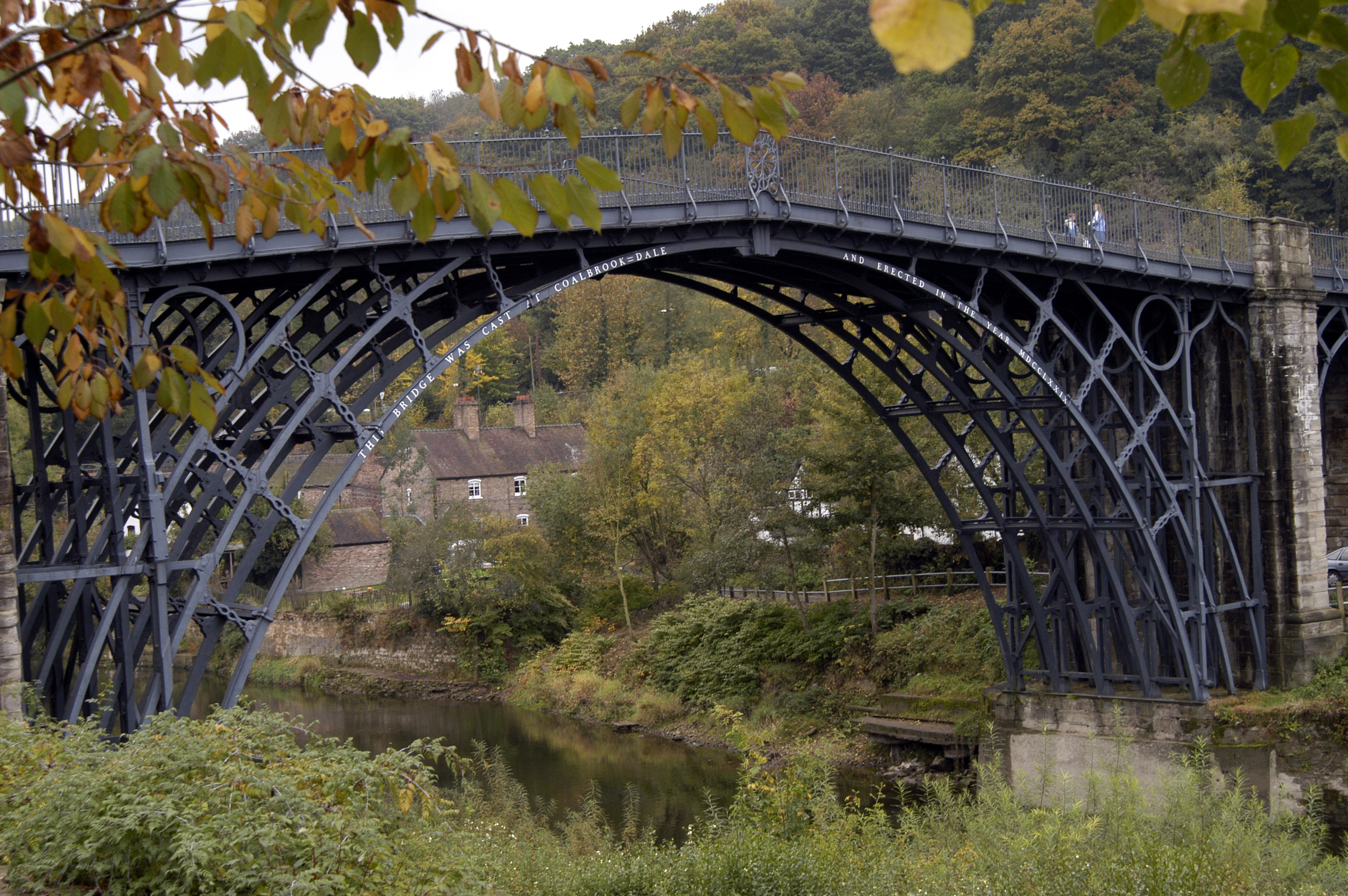 Full frame image of The Iron Bridge, Ironbridge, England